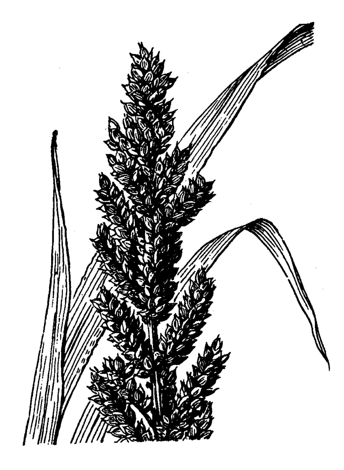 Echinochloa frumentacea, Japanhirse